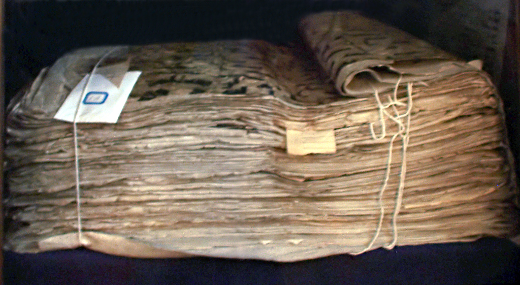 A qur'an from the 9th century. It is an alleged 7th century original of the edition of the third caliph Uthman (see Uthman Qur'an) but this is disputed since it is written in kufic. The qur'an is located in the small Telyashayakh mosque in Tashkent. Edit by User:Rainer Zenz